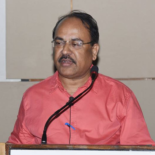 Prof. Ramesh delivering a lecture at Physical Research Laboratory Ahmedabad in 2016